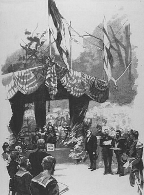 Vintage photo depicting the ceremony when the foundation stone was laid for St. Alban's Church in Copenhagen in the presence of the Princess of Wales - Alexandra - and other members of the royal family